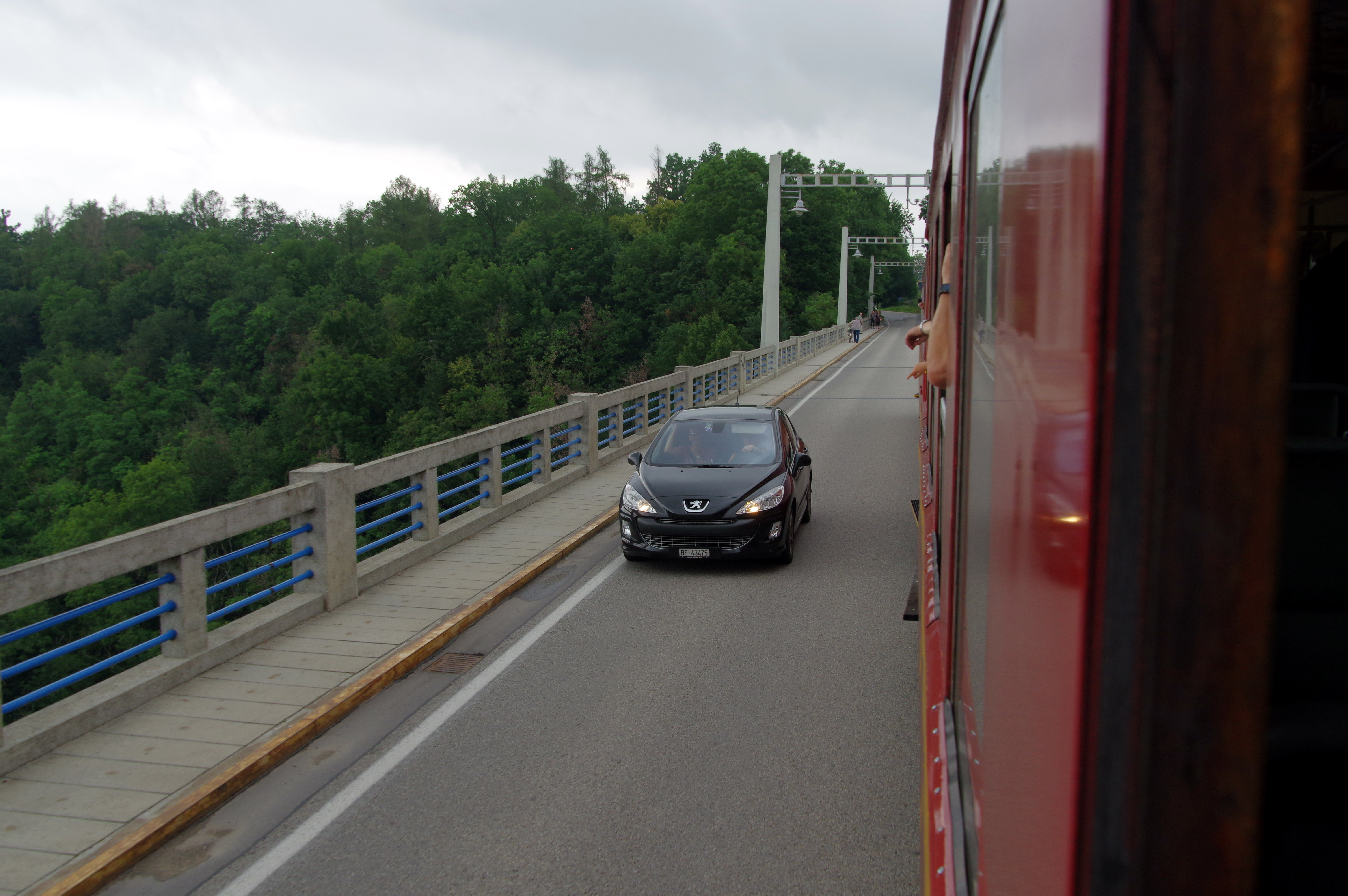 23-24.7.16 Bechyne